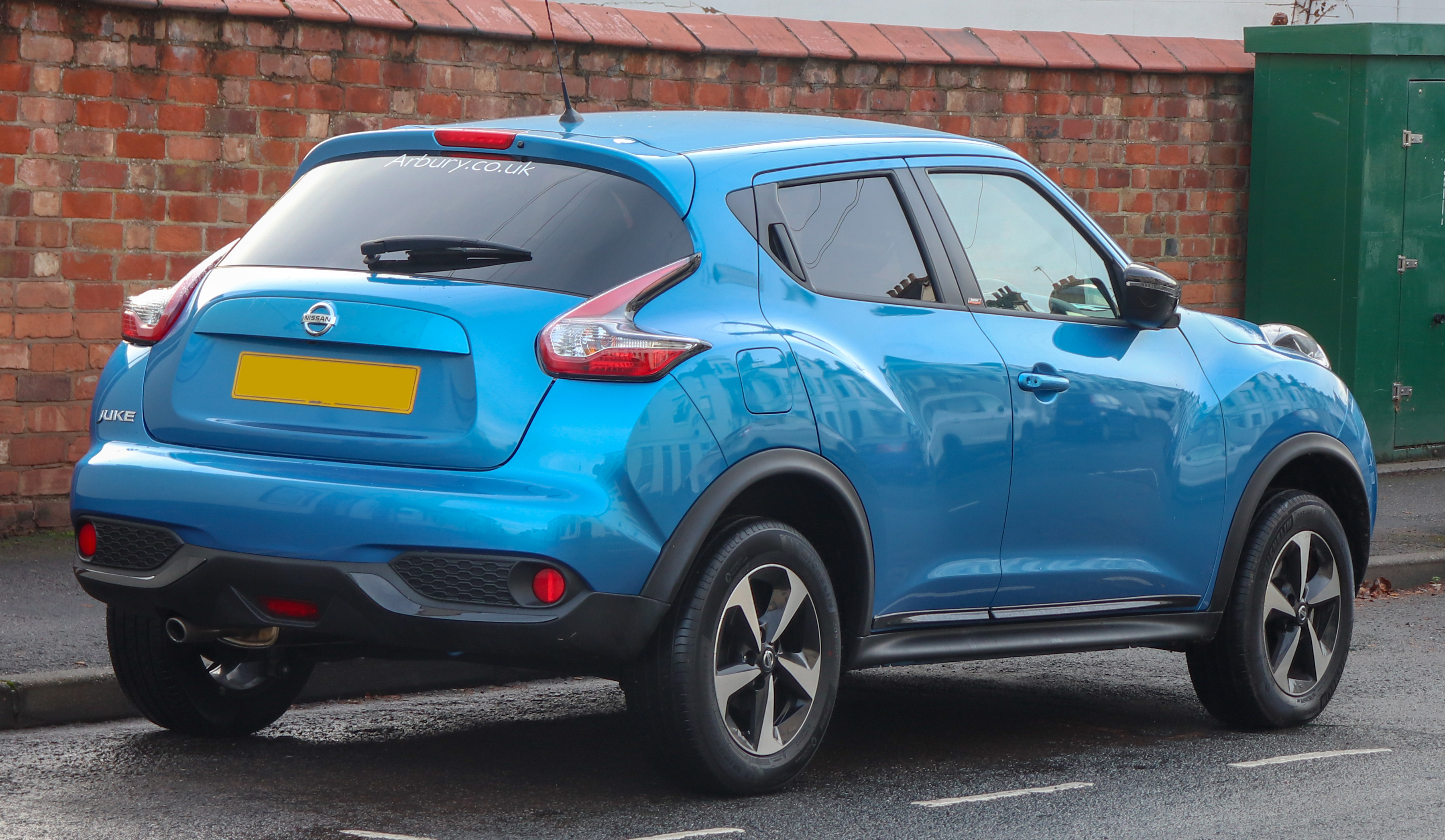 2018 Nissan Juke Bose Personal Edition 1.6 Rear Taken in Leamington Spa